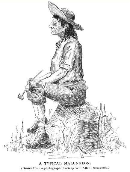 "A typical malungeon" was published in 1890 by Will Allen Dromgoole, it found in Nashville Sunday American, August 31, 1890